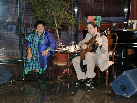 Jazz musicians Ericka Ovette (vocalist, left) and Paul C. Pieper (guitarist) at a concert in Estonia.